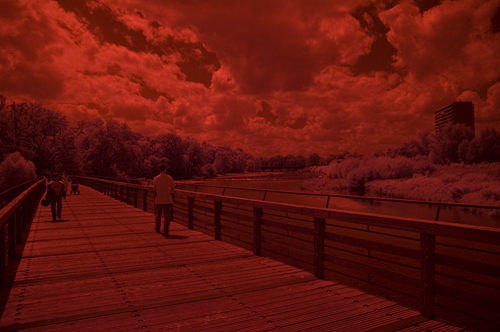 Example for an infrared photography with automatic white balance